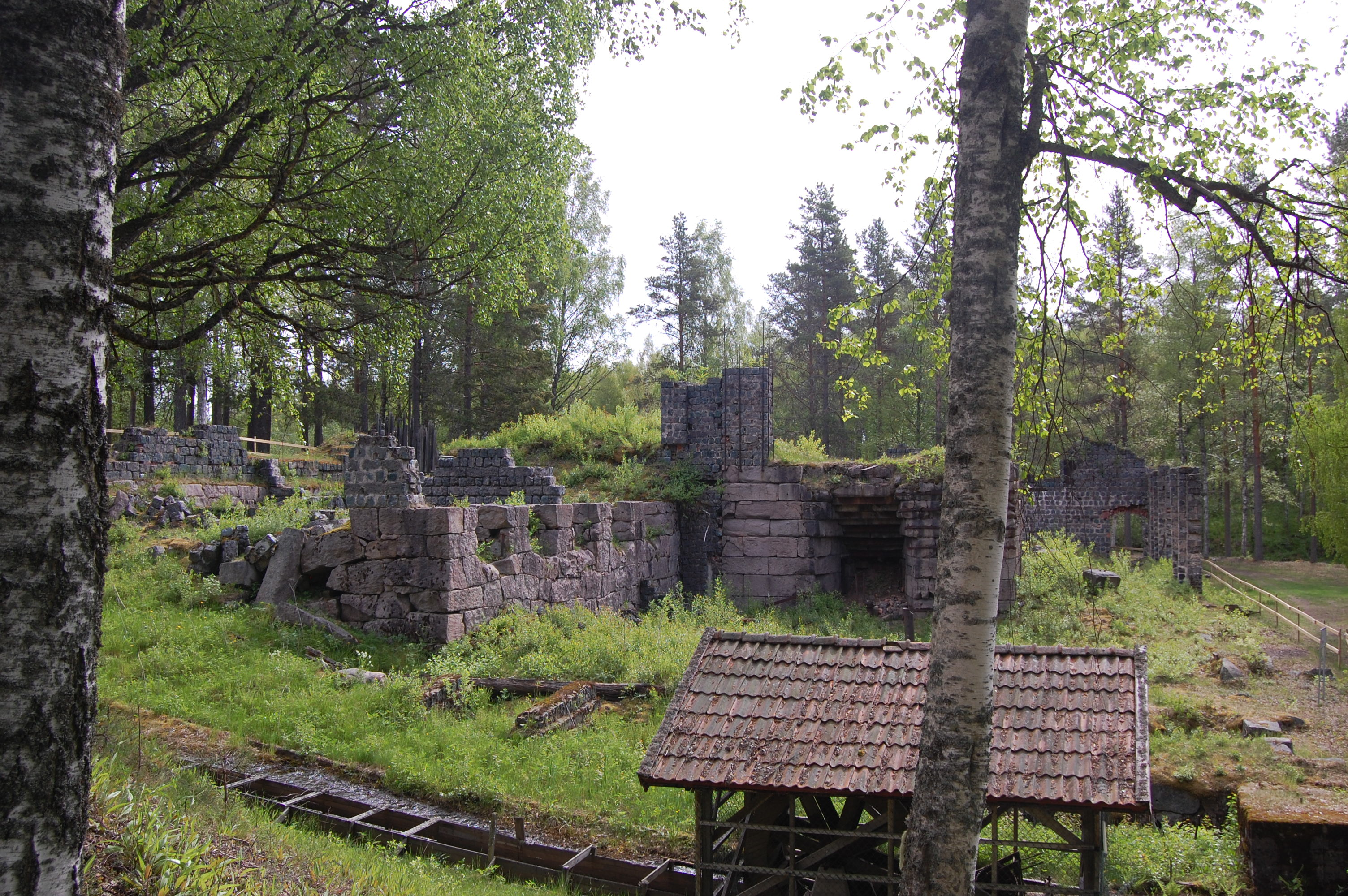 Ruins of Gustavsfors blast furnace, Värmland, Sweden